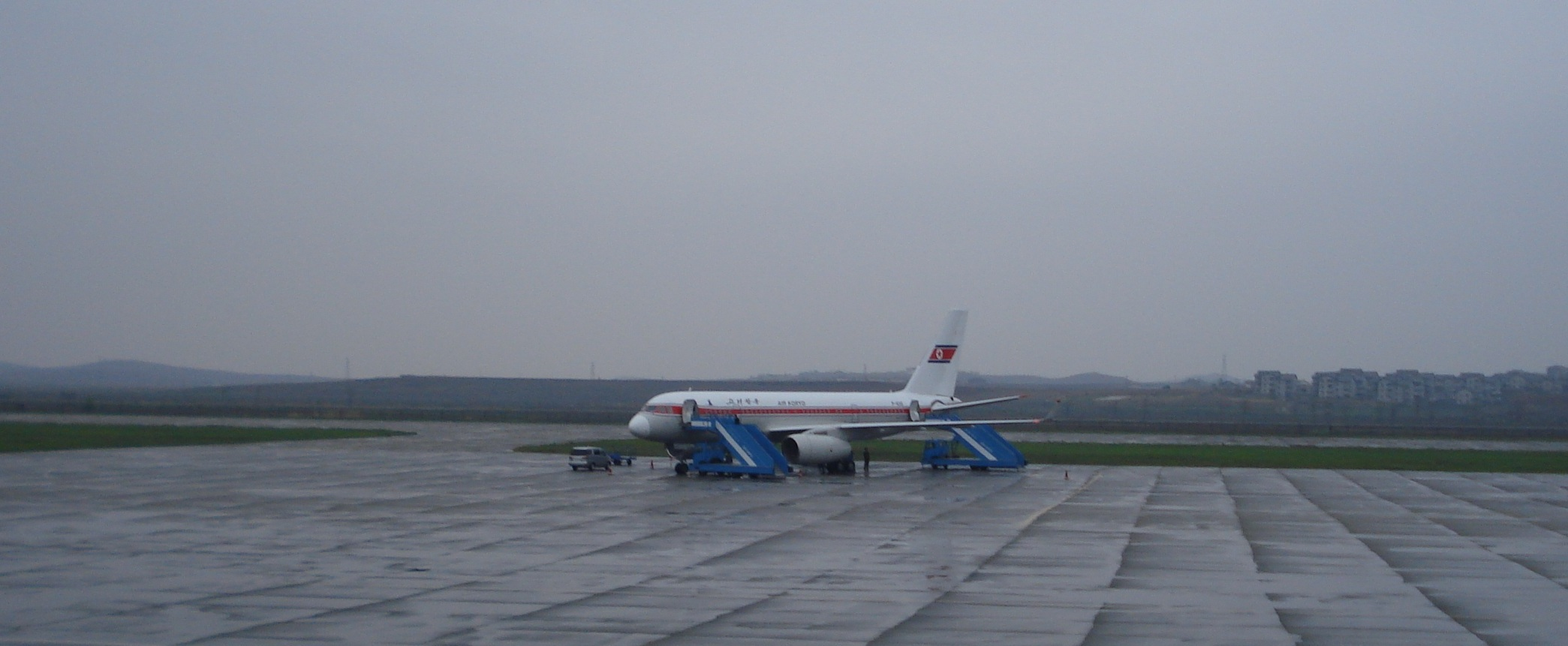 Air Koryo Tu-204 and new low floor bus in Pyongyang, DPR Korea (2009).